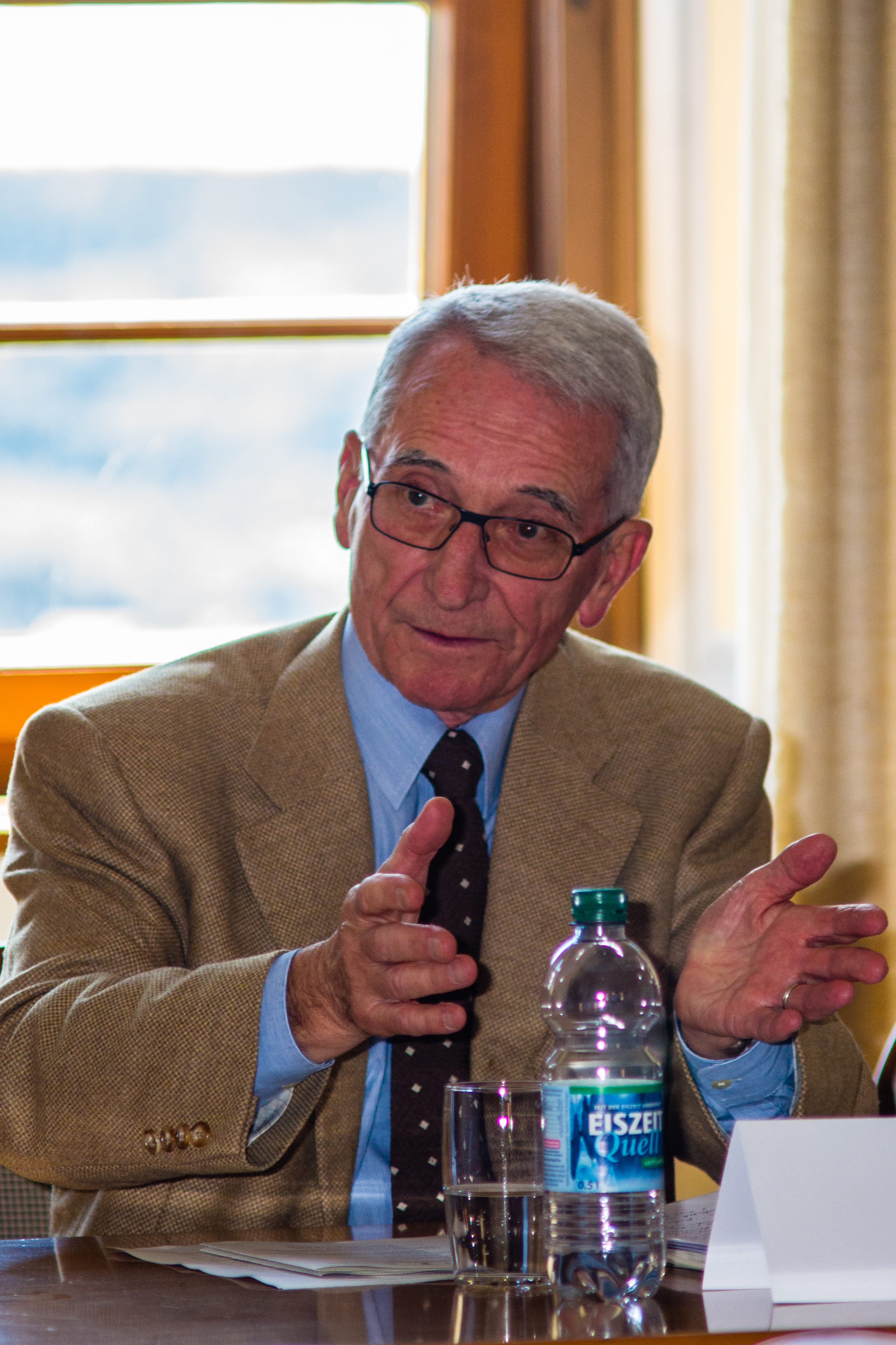 Prof. em. Dr. Rudolf Hrbek at a discussion in Tübingen on federal features of the EU